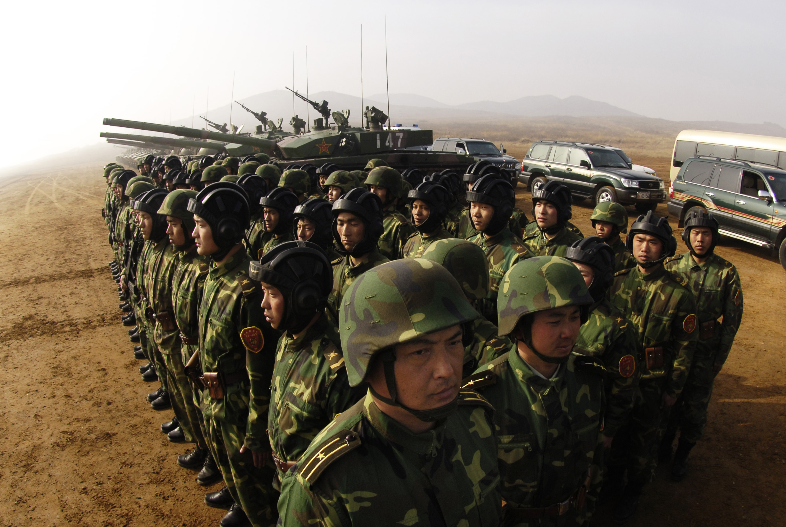 Soldiers with the People's Liberation Army at Shenyang training base in China, March 24, 2007. DoD photo by Staff Sgt. D. Myles Cullen, U.S. Air Force. (Released)